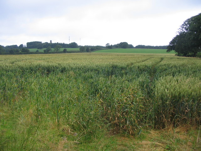 Mendip cropland A view looking to the northwest over crop land near Cranmore. Cranmore Tower can be seen on the horizon at left.